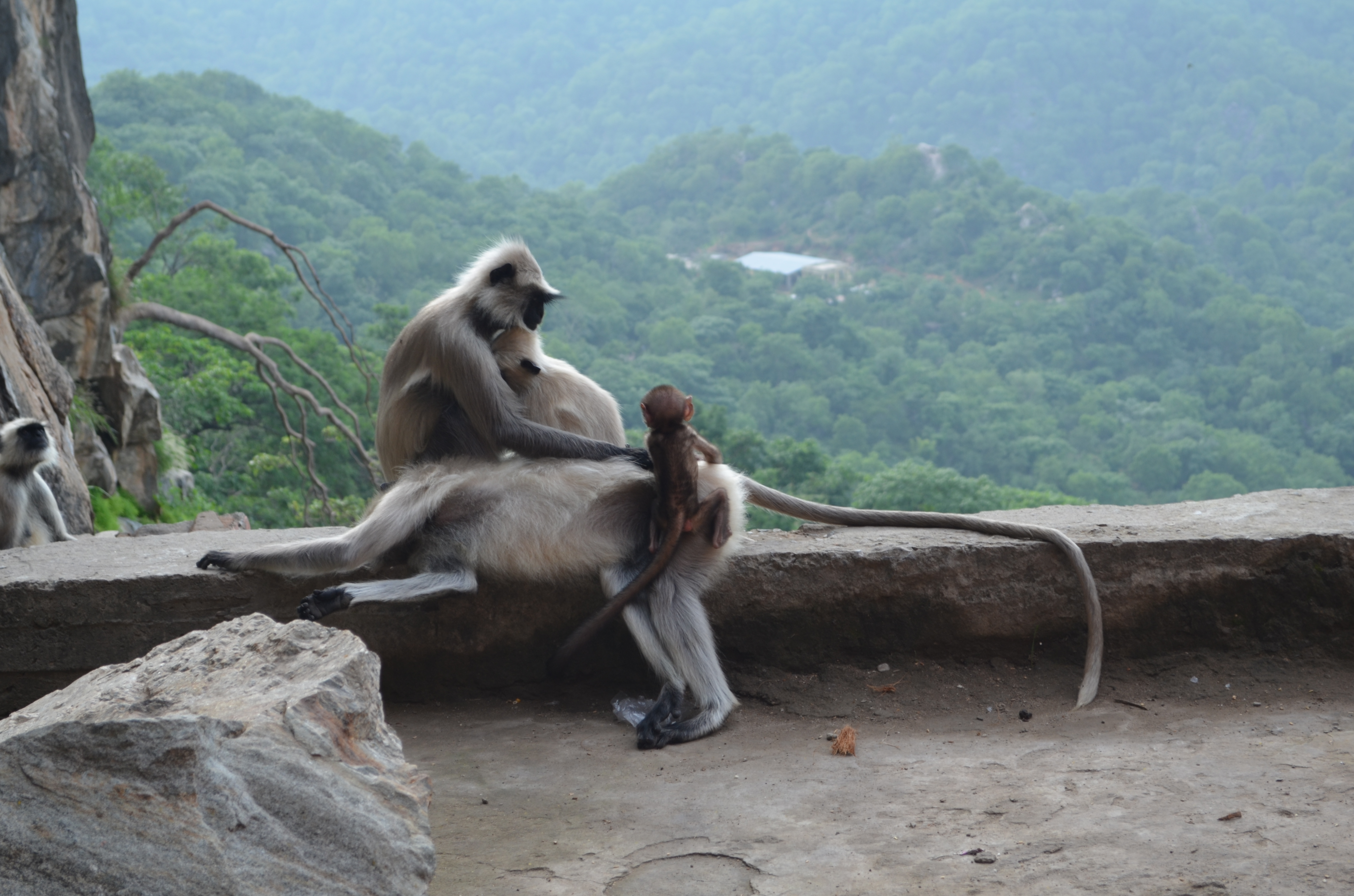 Photo taken at Parshuram Mahadev Temple in the Aravallis, Pali, Rajasthan, India